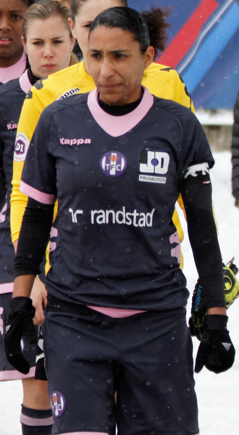 PSG-Toulouse, January 20th, 2013.